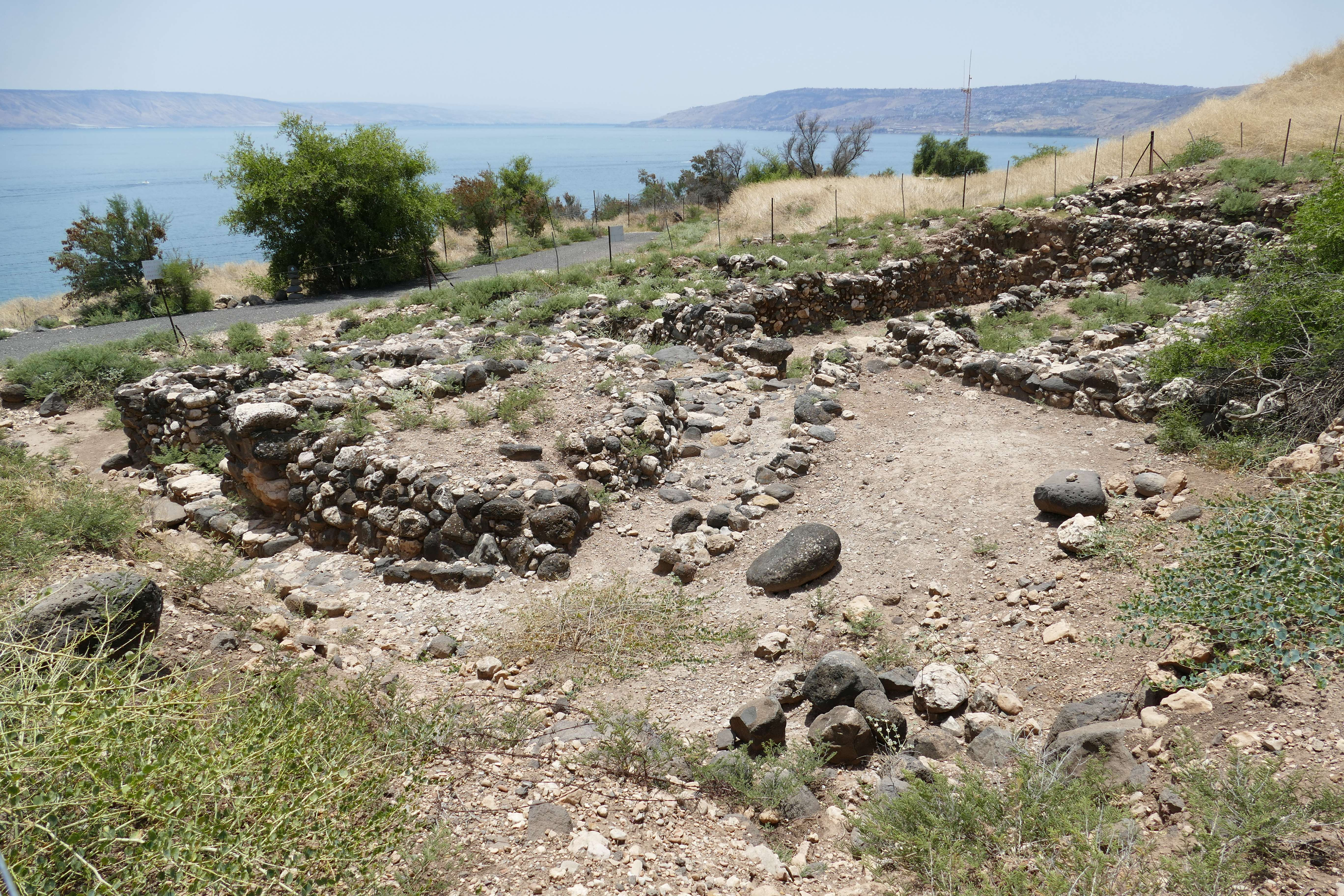 Tel Kinarot, Israel.